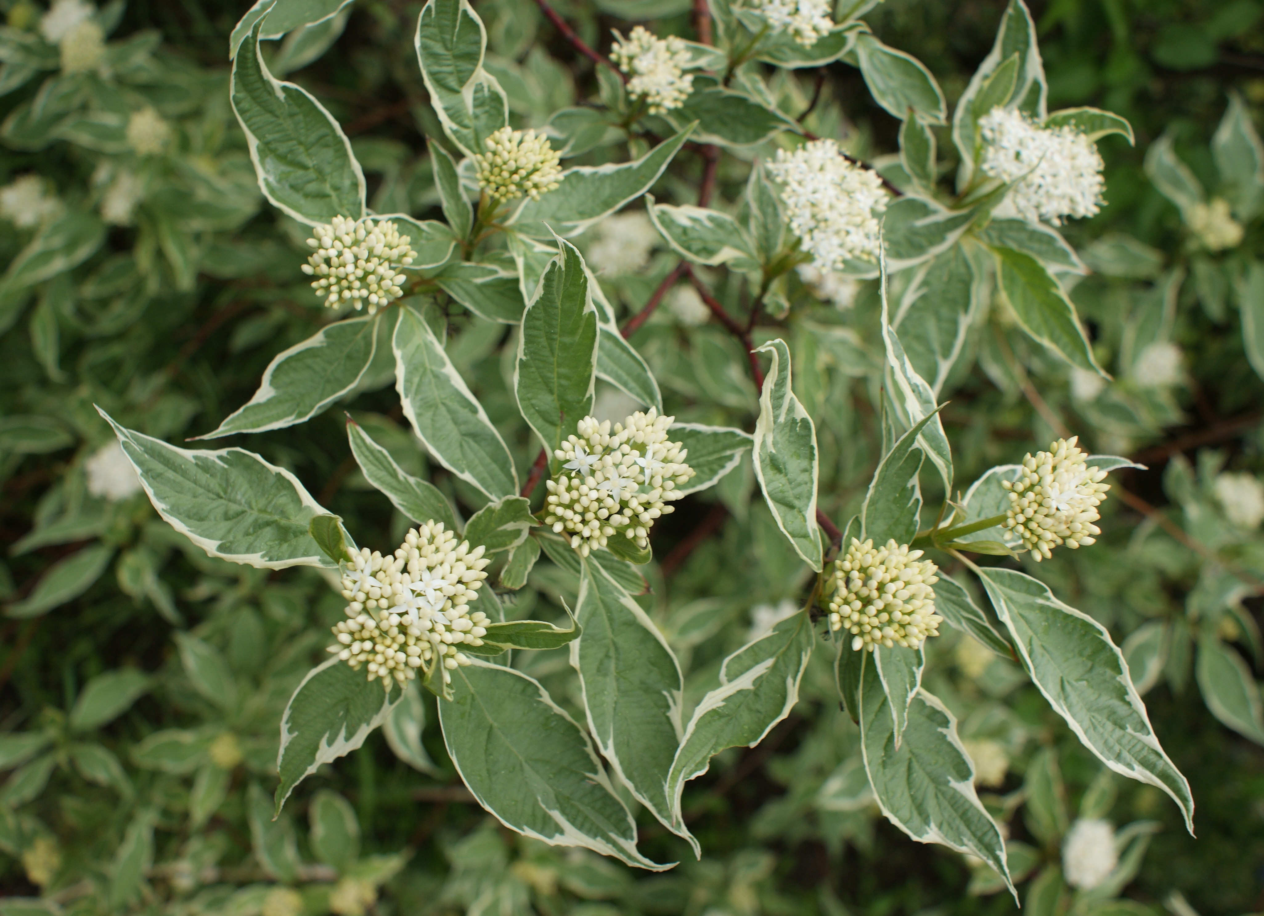 Cornus alba 'Elegantissima'